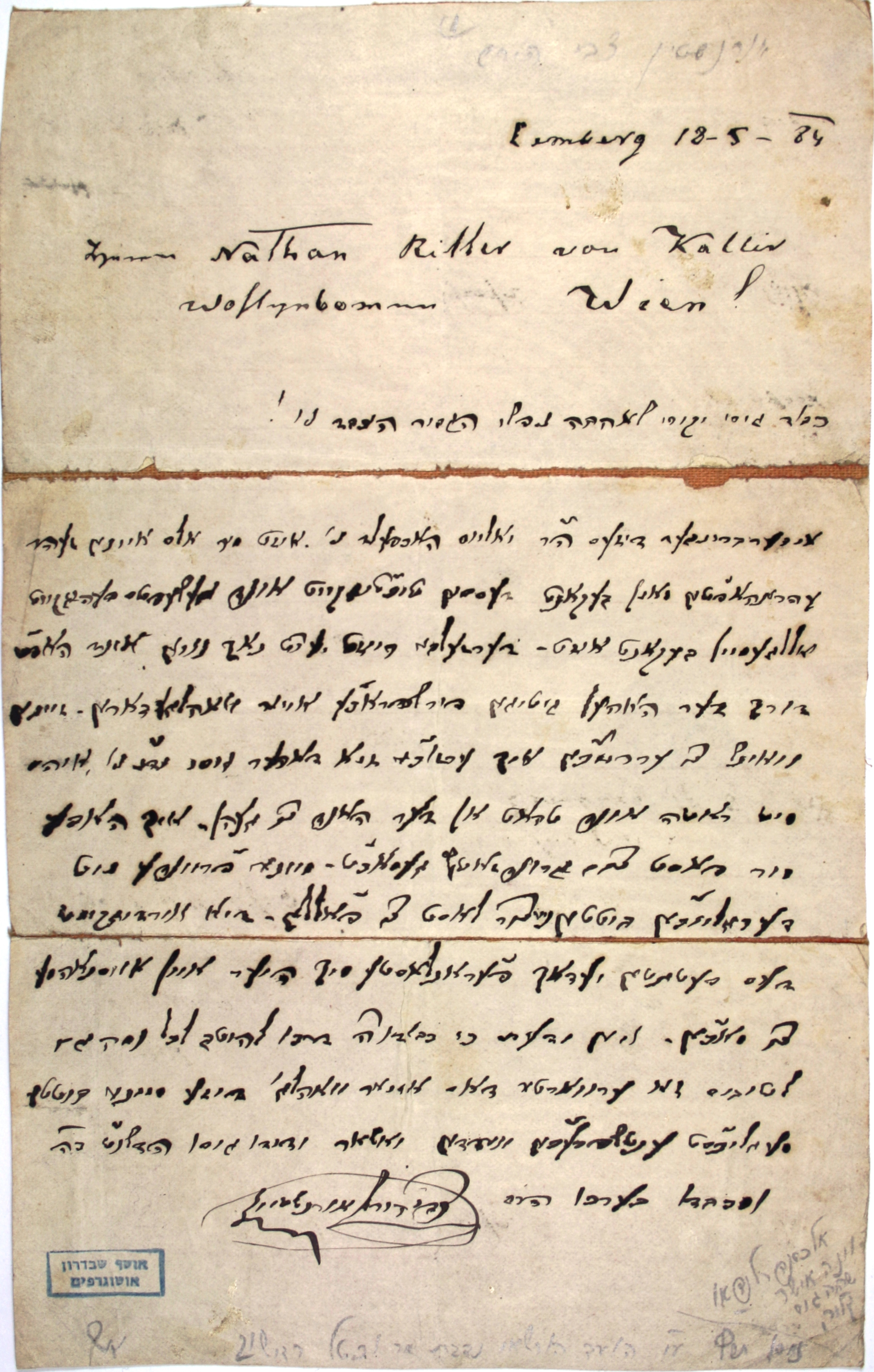 Letter by Tzvi Hirsh Orensterin in German in Hebrew Characters